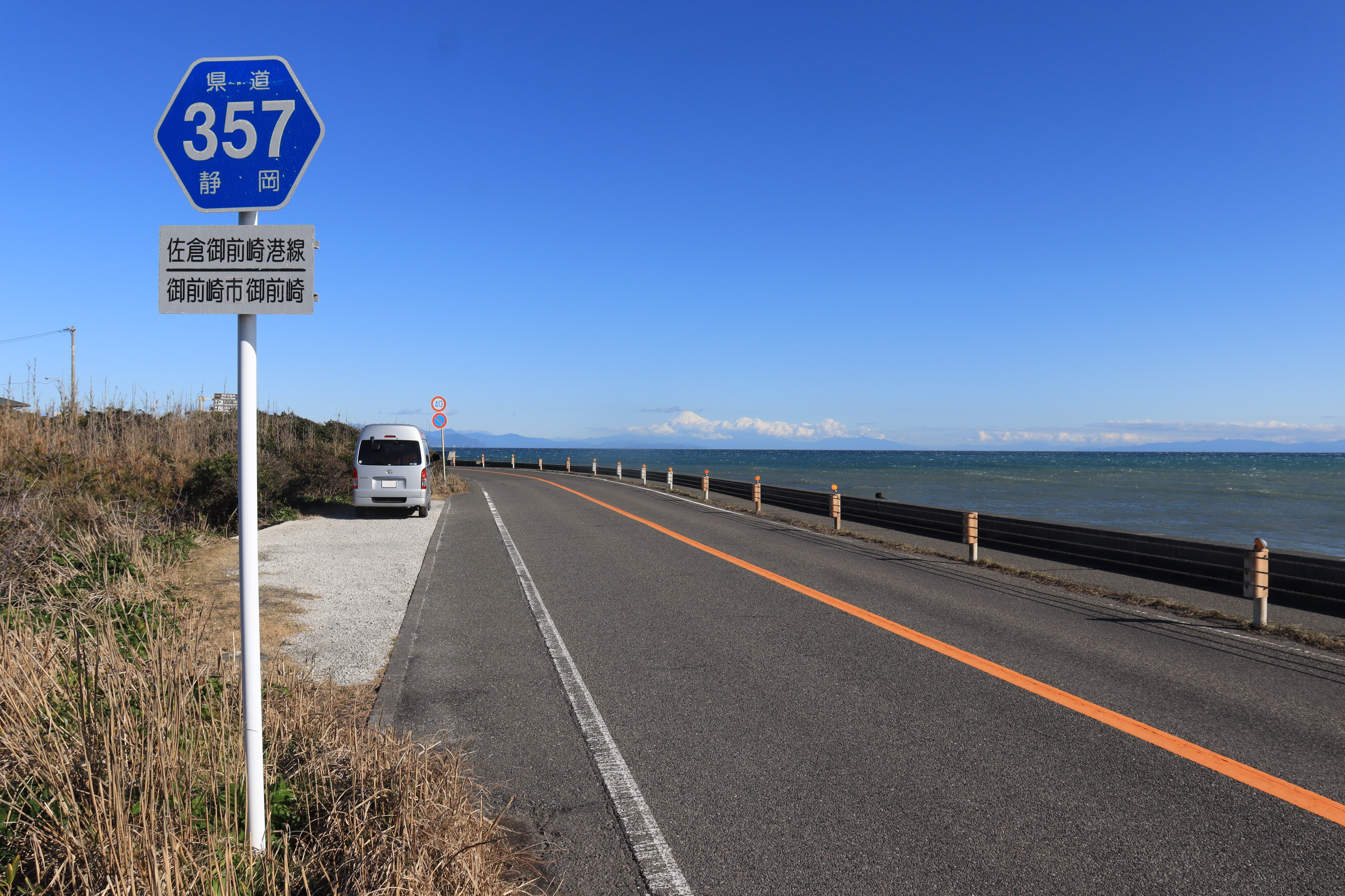 Shizuoka Prefectural Road Route 357 and Mount Fuji over Suruga Bay in Omaezaki, Omaezaki City, Shizuoka Prefecture, Japan.